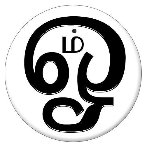 Om in Tamil